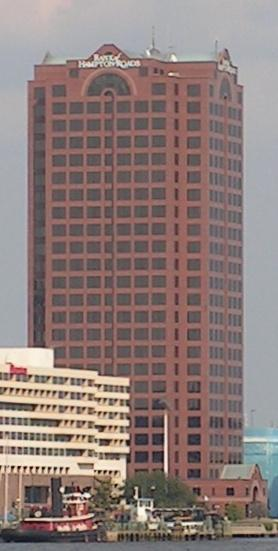 Dominion Tower